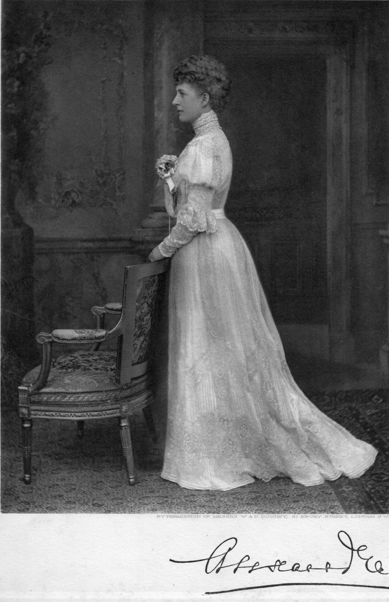 Photograph of Princess Alexandra of Denmark 1844-1925, wife of King Edward VII of the United Kingdom. Taken by W & D Downey, printed in Queen Alexandra's Christmas gift book, published by the Daily Telegraph, London, 1908.